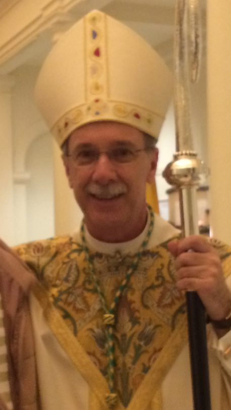 Bishop Luis R. Zarama after a Chirstmas/Christmas Eve midnight mass at the Holy Name of Jesus Cathedral